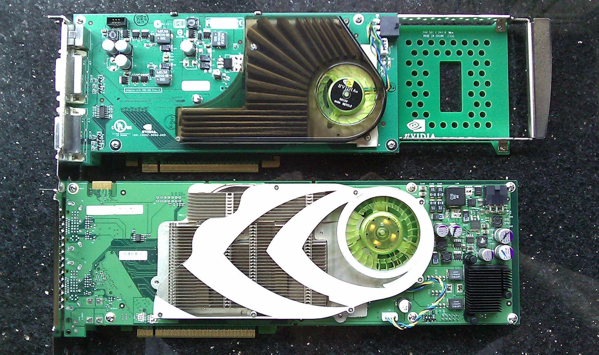 NVIDIA GeForce 7900 GX2 & GeForce 7950 GX2